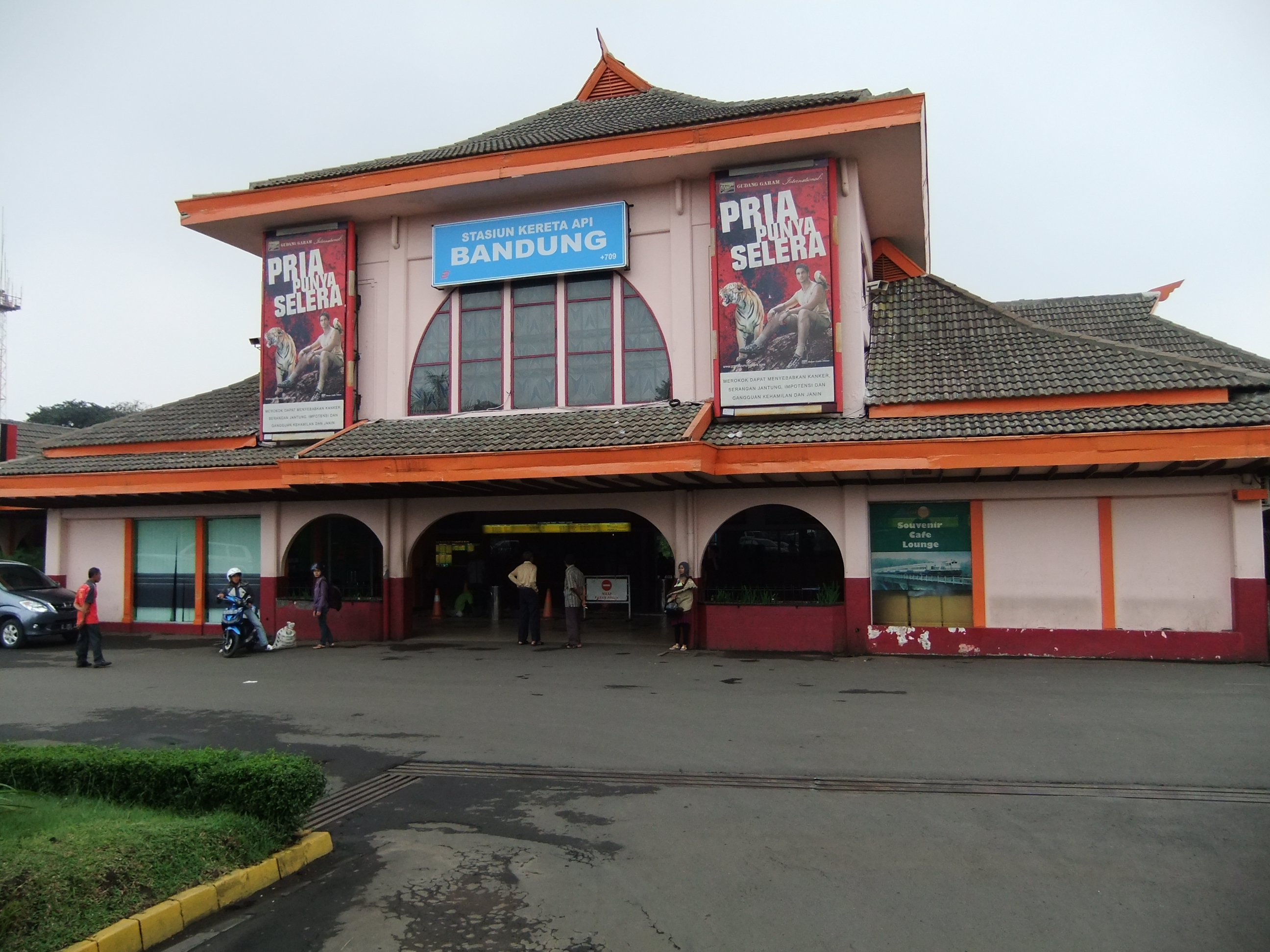 Bandung Station, Jl. Kebon Kawung side